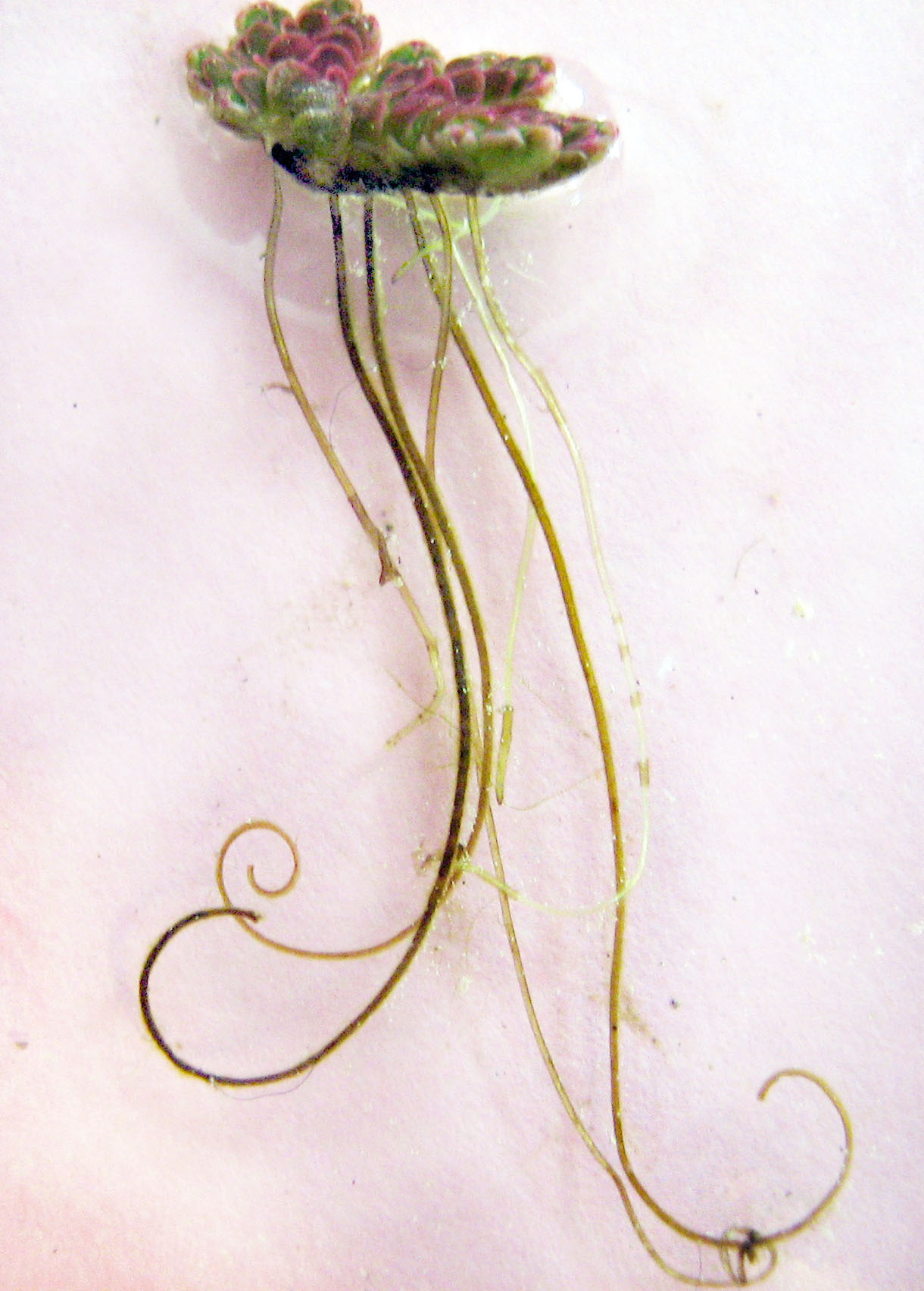 Azolla filiculoides (Water Fern) is a species of Azolla, native to warm temperate and tropical regions of the Americas as well as most of the old world including Asia and Australia